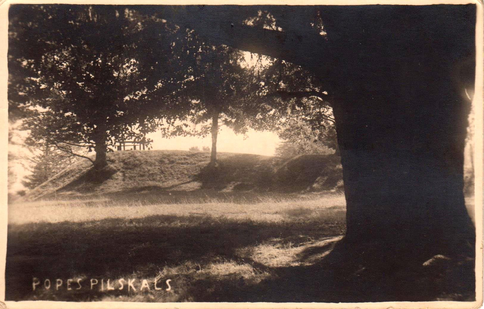 Popes pilskalns, Popes pagasts